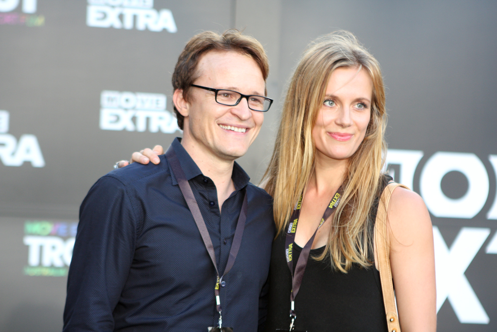 Damon Herriman & Catherine Mack at Tropfest 2012